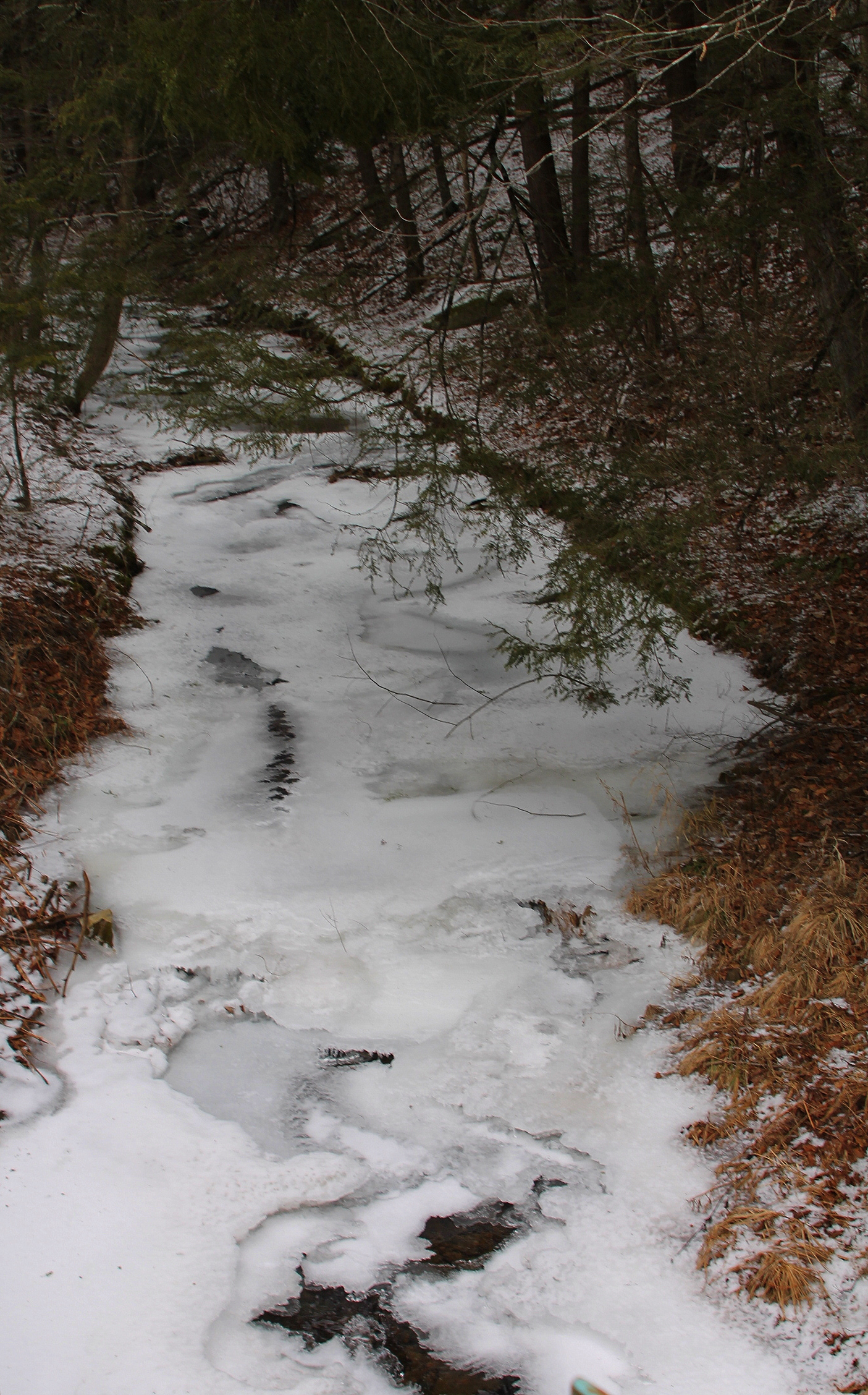 Wolfhouse Run looking upstream in January